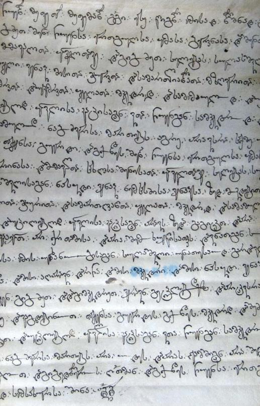 Charter of King George VIII of Georgia